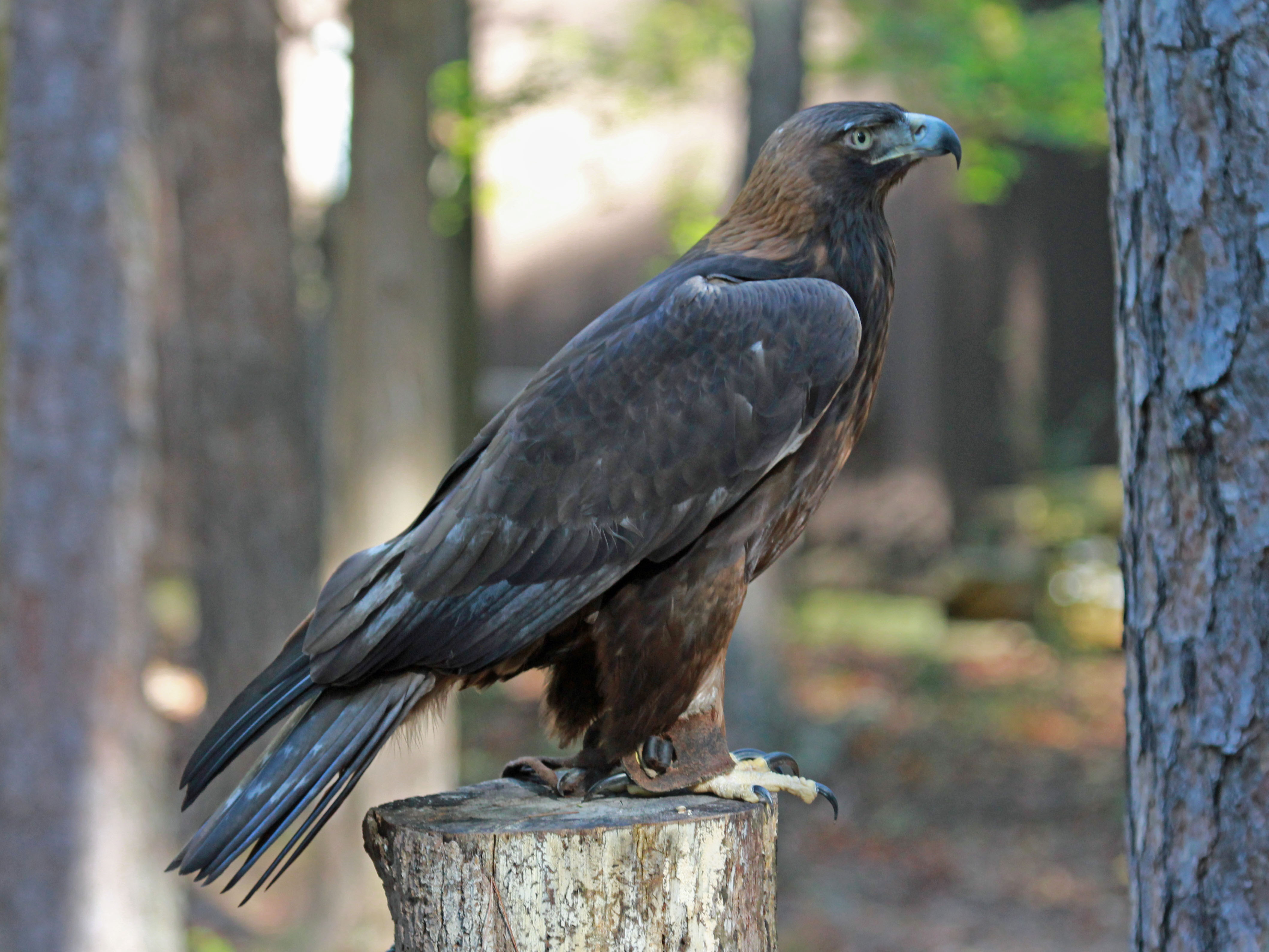 Golden Eagle (Aquila chrysaetos) - Carolina Raptor Center at Huntersville, North Carolina